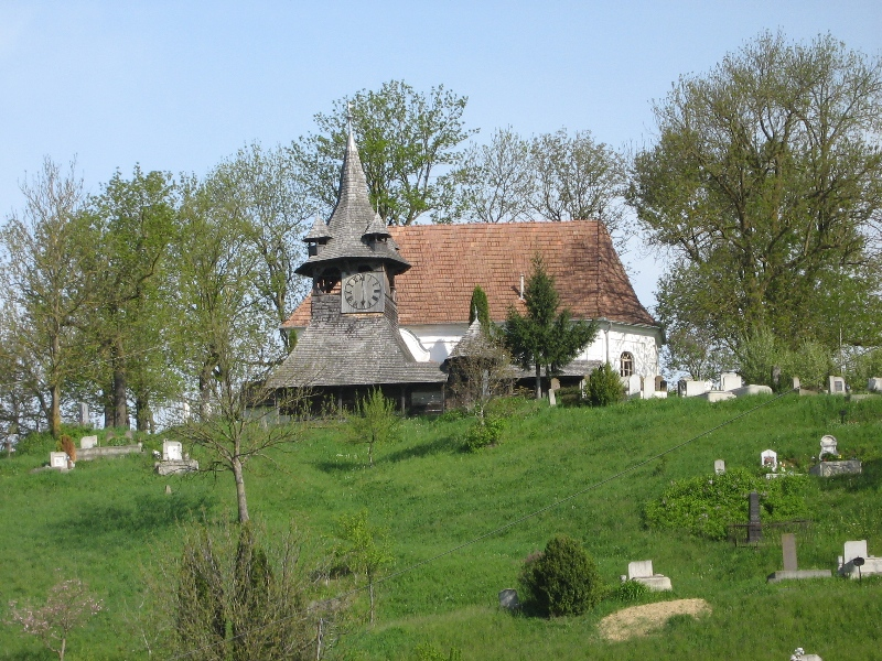 Reformed church in Ceuaşu de Câmpie (hu. Mezőcsávás, de. Grubendorf), Romania